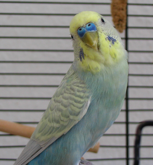 Budgerigar, 3 years old